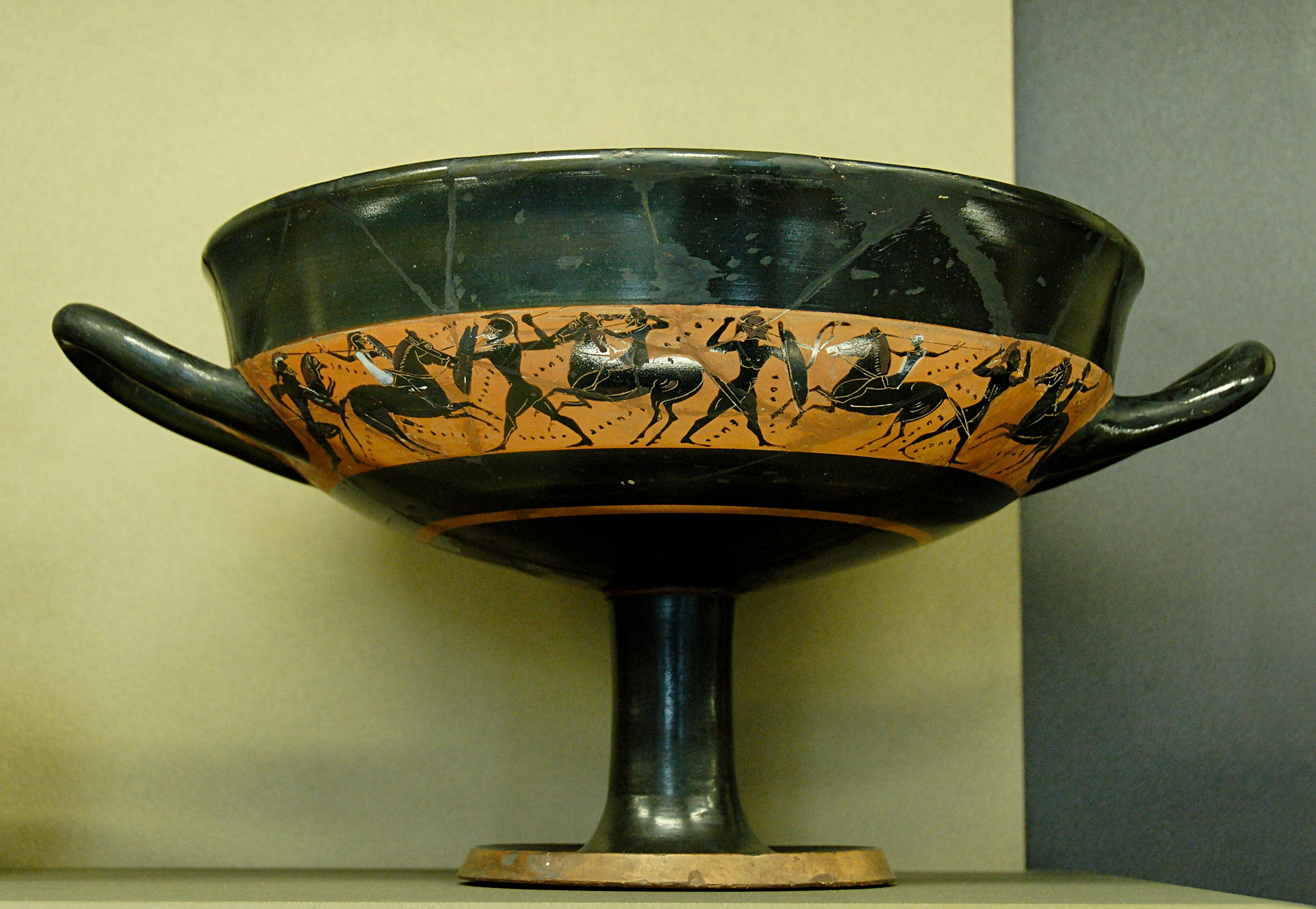 Fights. Attic black-figure band cup, ca. 540 BC. From Vulci.